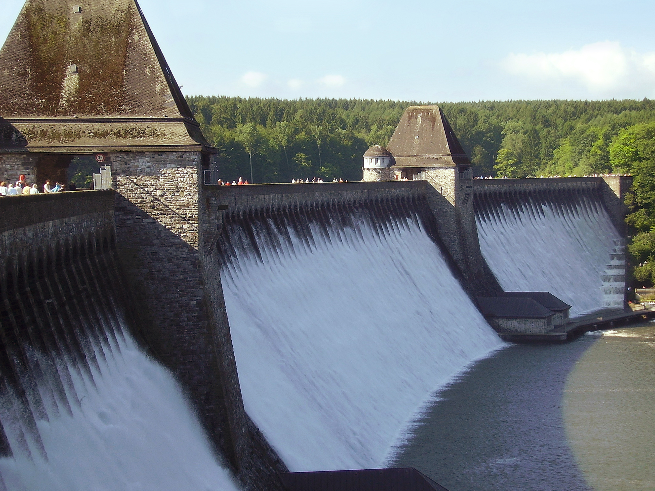 The Möhne Reservoir in Germany